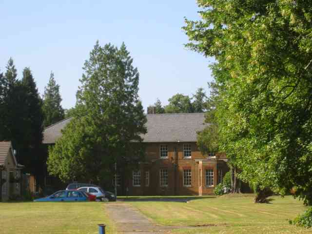 Harperbury Hospital Herts. This was a mental hospital complex but has now been run down to ancillary projects